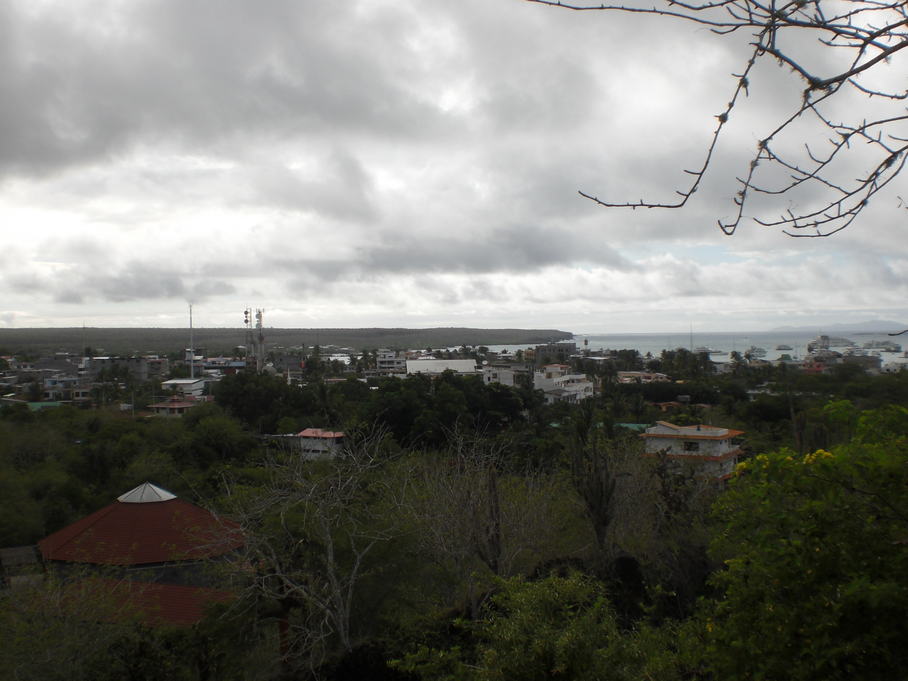 Skyline of Puerto Ayora, Galapagos, Ecuador.